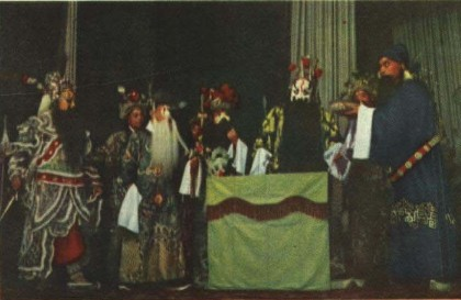 1950年9月的《人民画报》，京剧《将相和》中蔺相如在澠池之會中逼迫秦王为赵王击鼓。